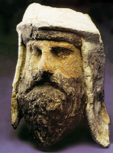 Painted clay and alabaster head of a Zoroastrian priest with Bactrian-style head-dress, Takht-i Sangin, near Tajikistan and Afghanistan border, ancient Bactria, 3rd-2nd century BC